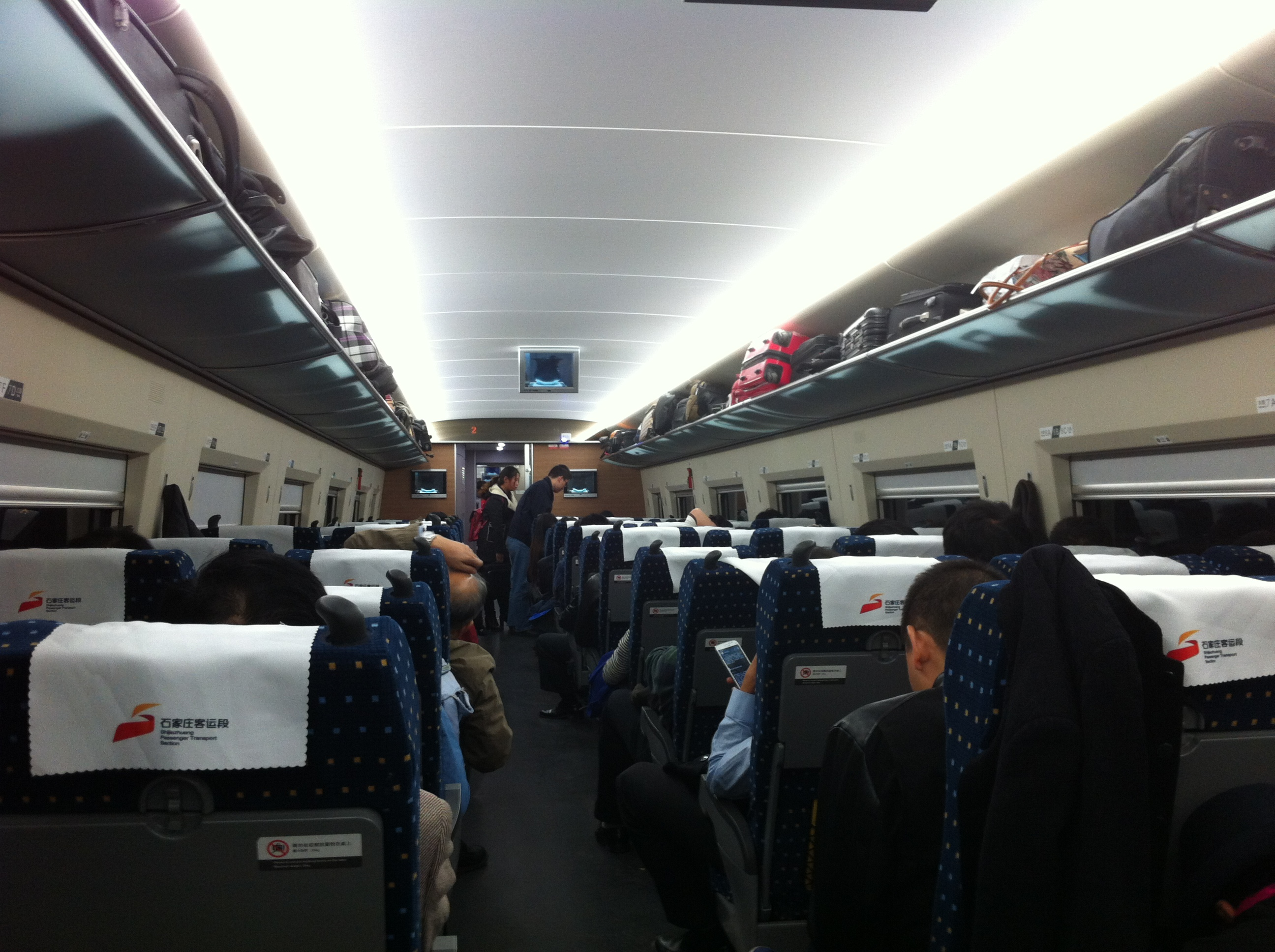 G520 from Hankou to Beijing West (via Gaobeidian East), service provided by Shijiazhuang Passenger Transport Department.